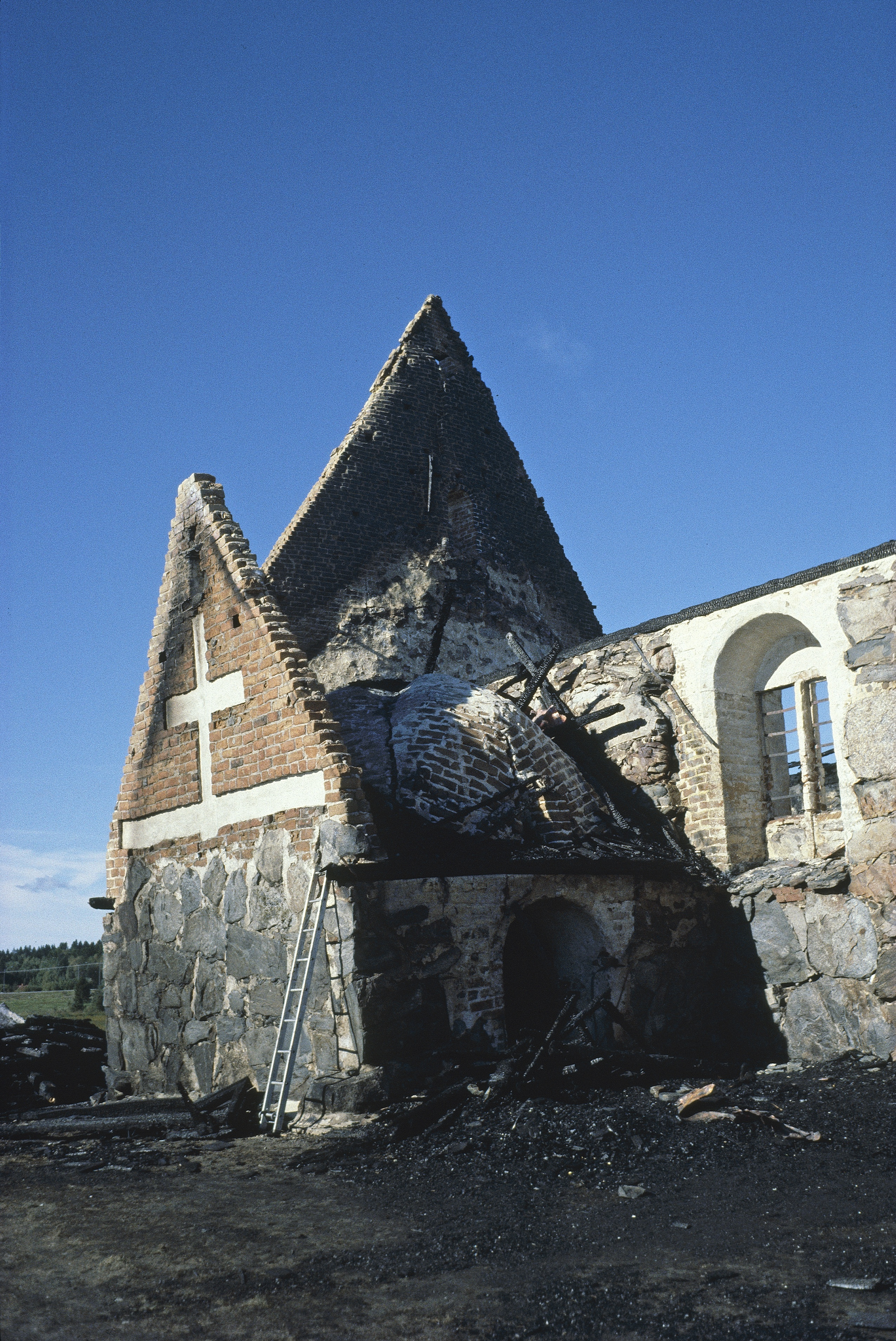 Photograph of the St. Olaf’s Church in Tyrvää after the arson.